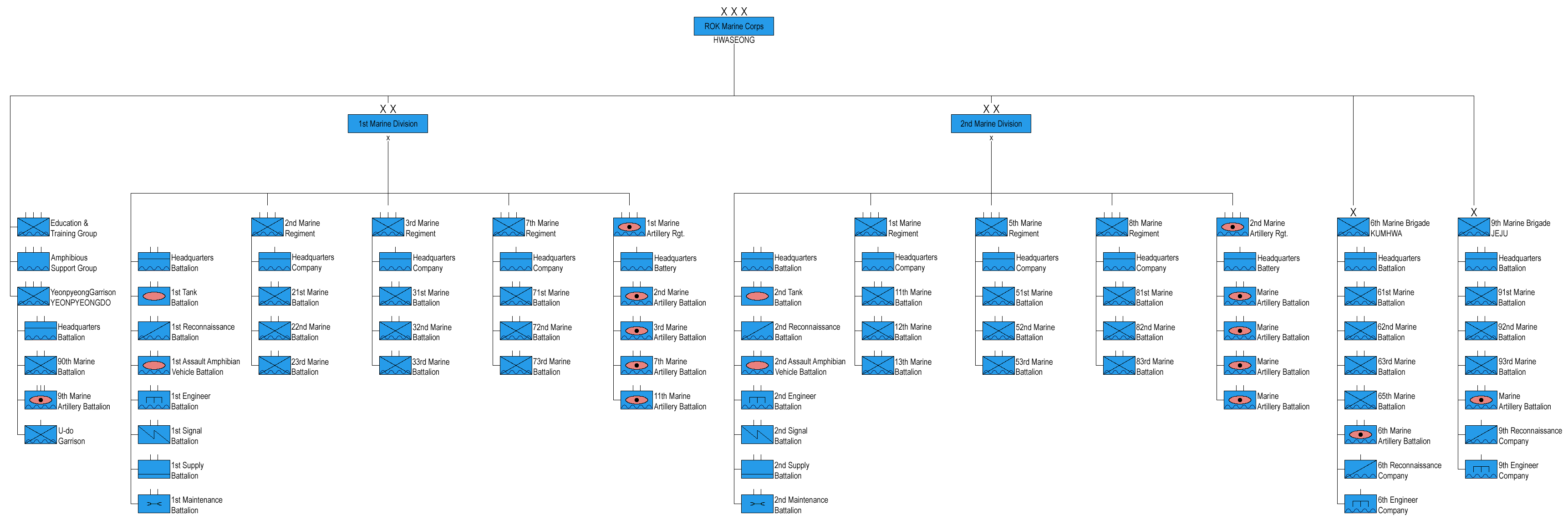 Republic of Korea Marine Corps Structure - please let me know if you a) know the battalion names b) find errors or omissions